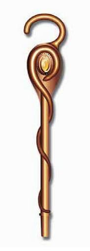 A stick (insignium) of the Order of the Companions of O. R. Tambo